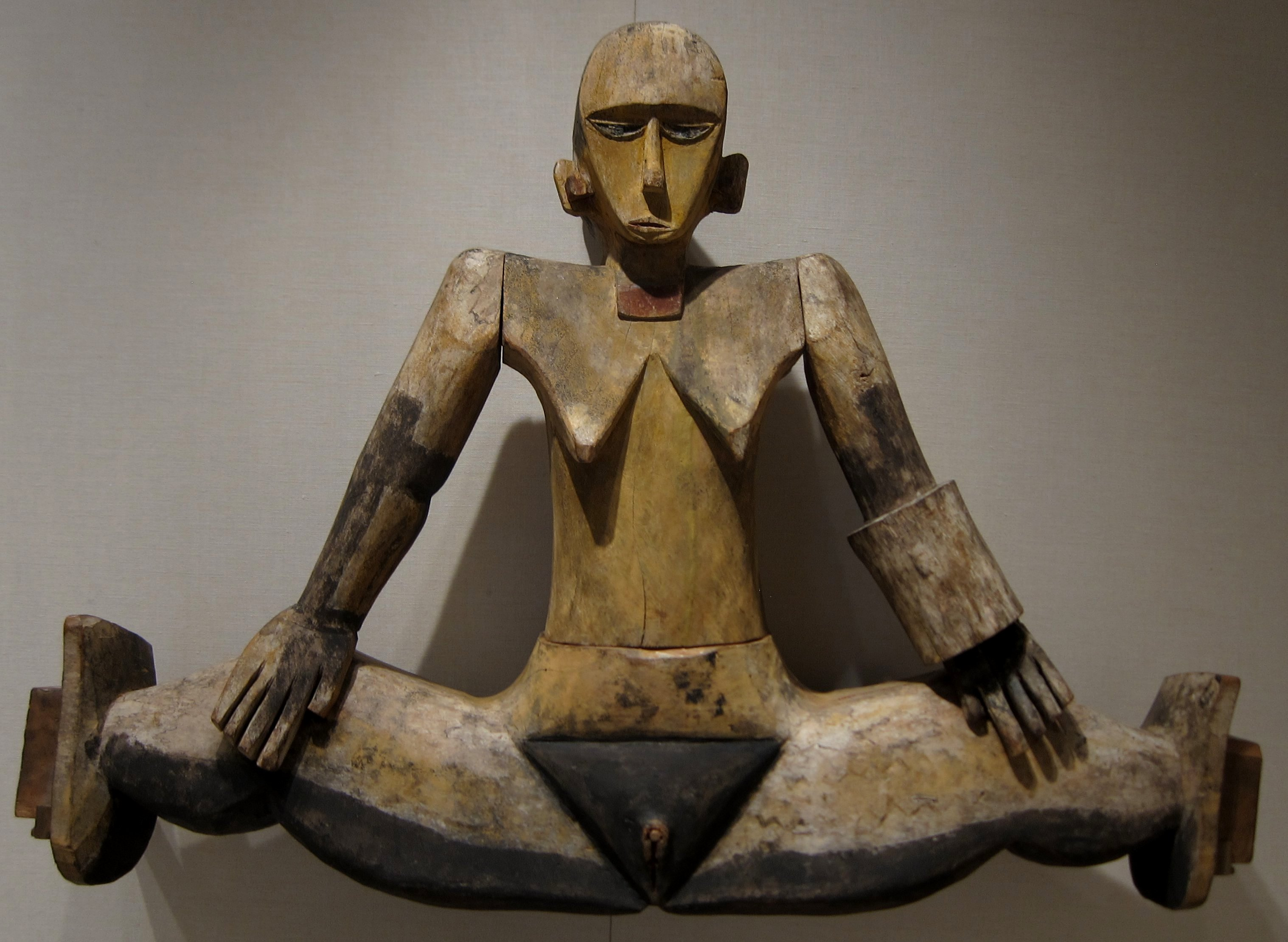 Dilukai from the Caroline Islands, Belau (Palau), 19th-early 20th century, Metropolitan Museum of Art, accession 1978.412.1558 a-d